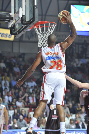 Kaniel Dickens dunk